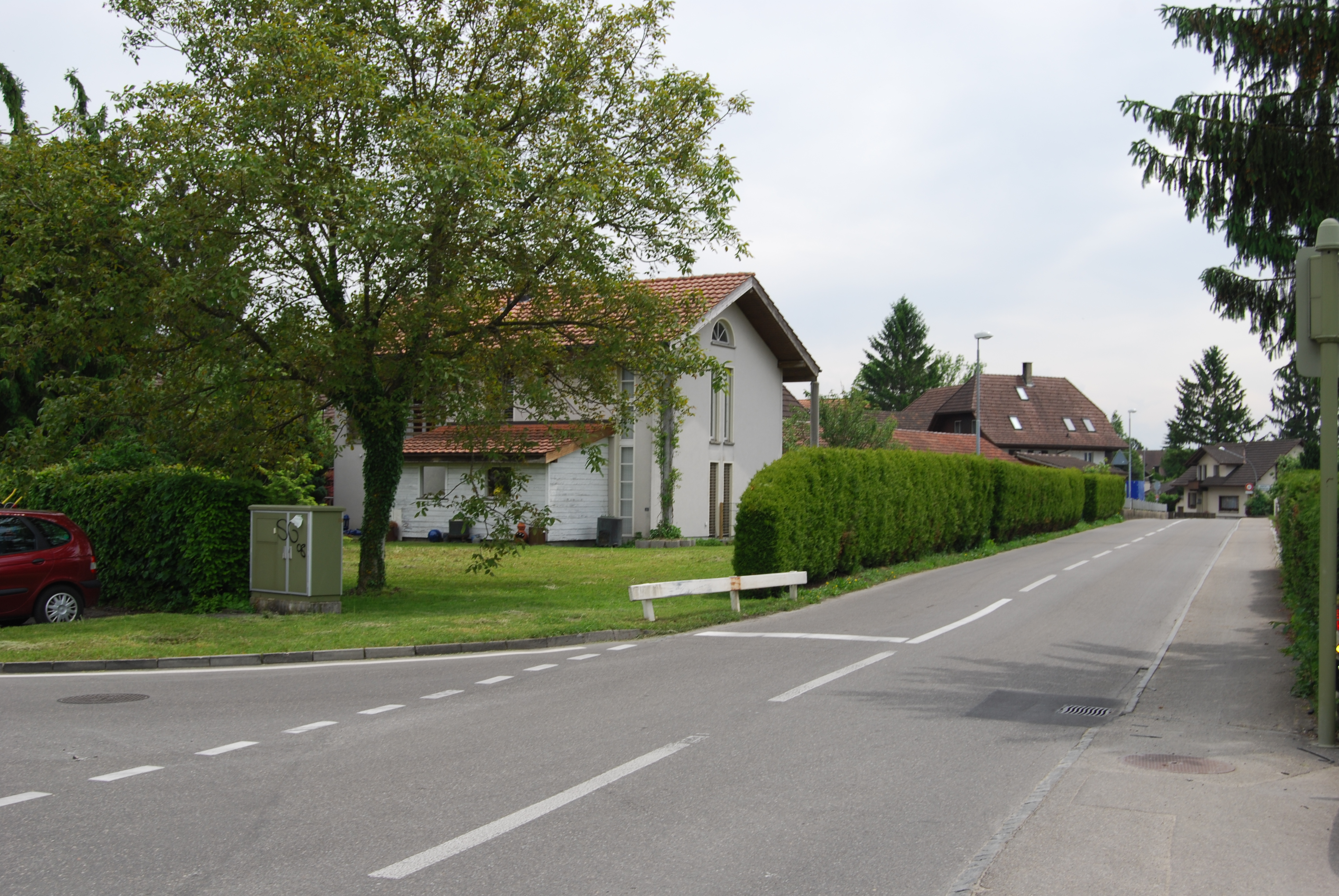 Scheuren, canton of Bern, SwitzerlandEsperanto: Scheuren, Kantono Berno, Svislando